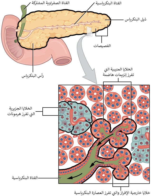 The pancreas has many functions, served by the endocrine cells in the islets of Langerhans and the exocrine acinar cells. Pancreatic cancer may arise from any of these and disrupt any of their functions.